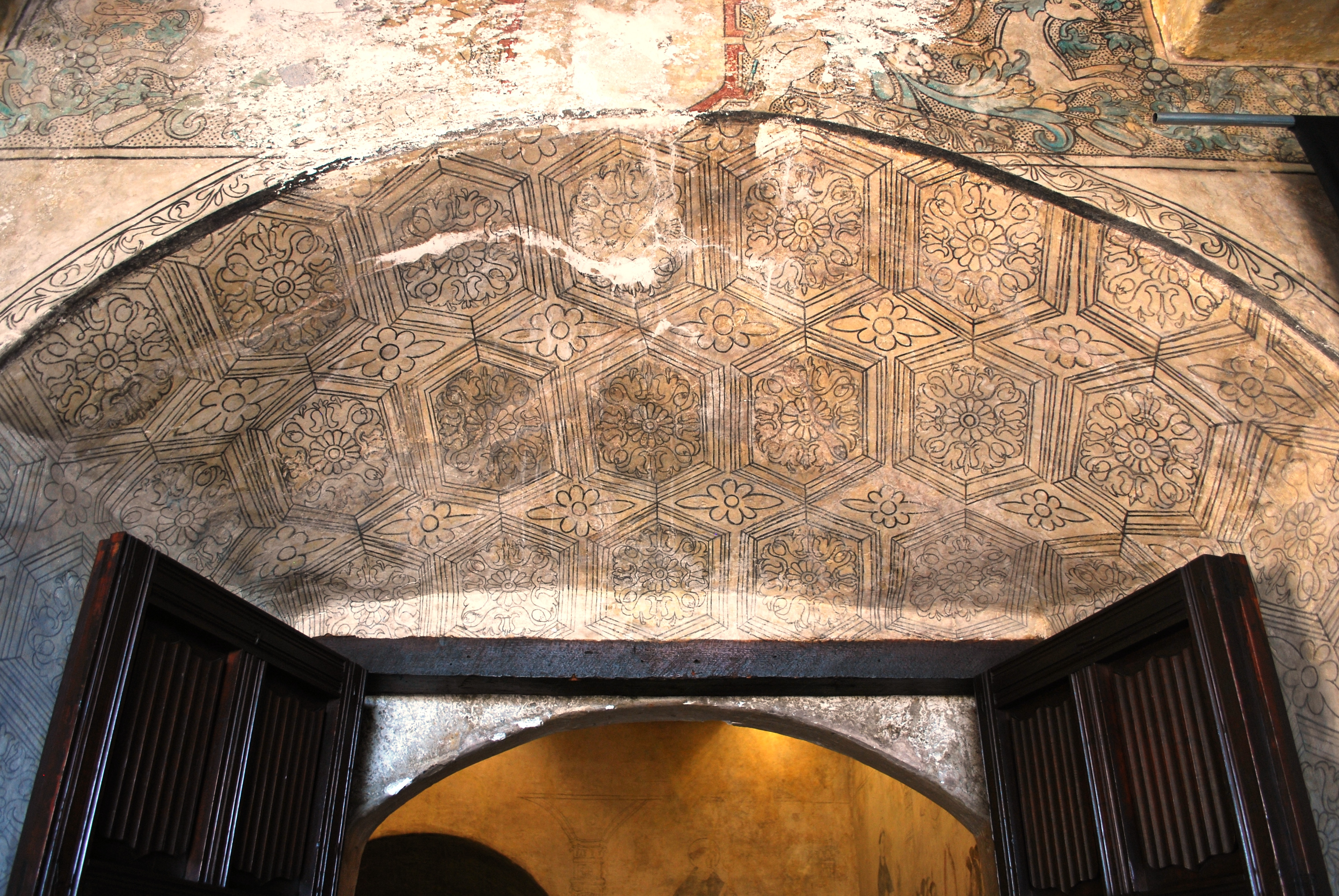 Above door in the portico of the Culhuacan monastery in Mexico City